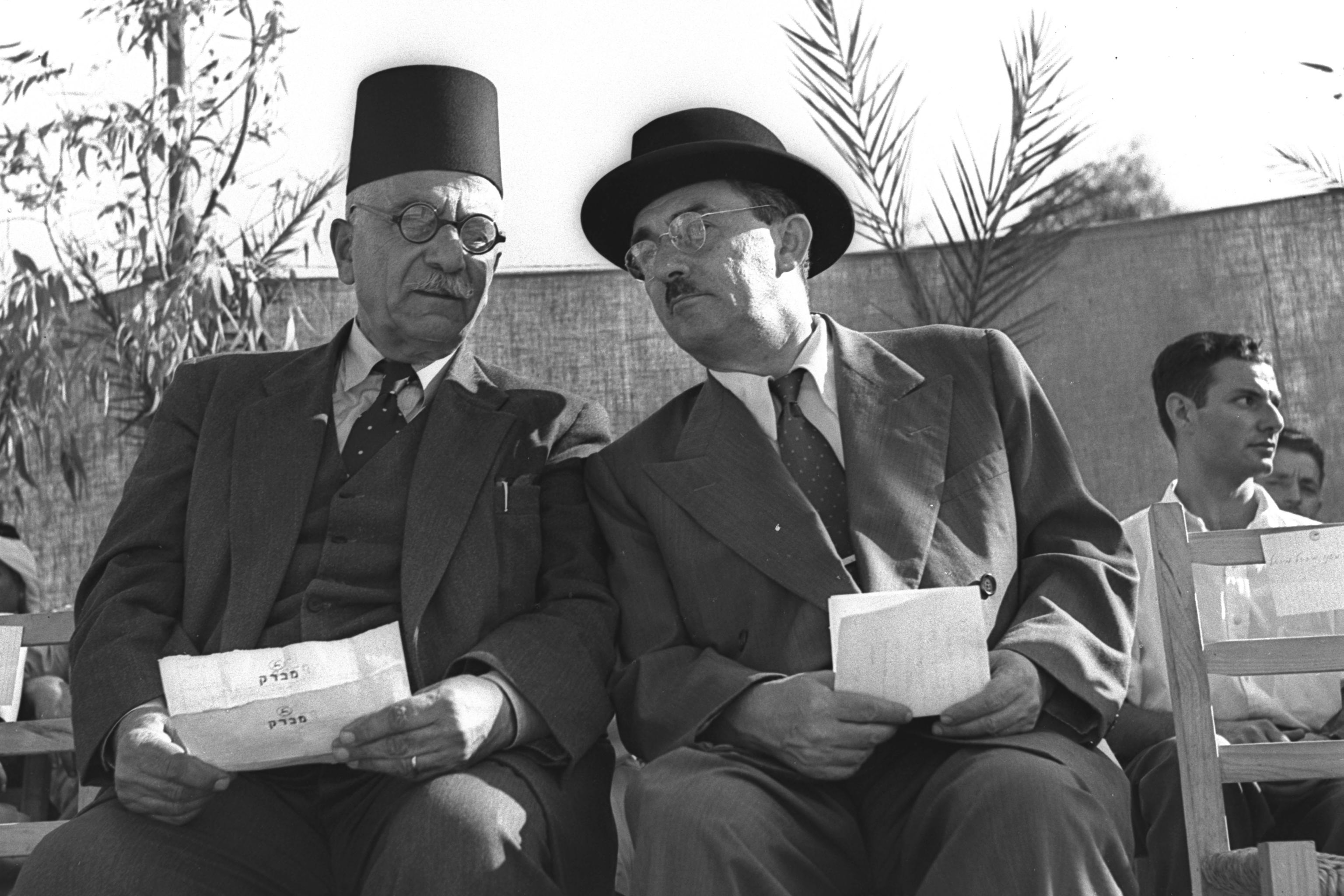 P.m. Moshe Sharett and Nazareth mayor mr. Amin Gargurah at Nazareth pipeline ceremony.